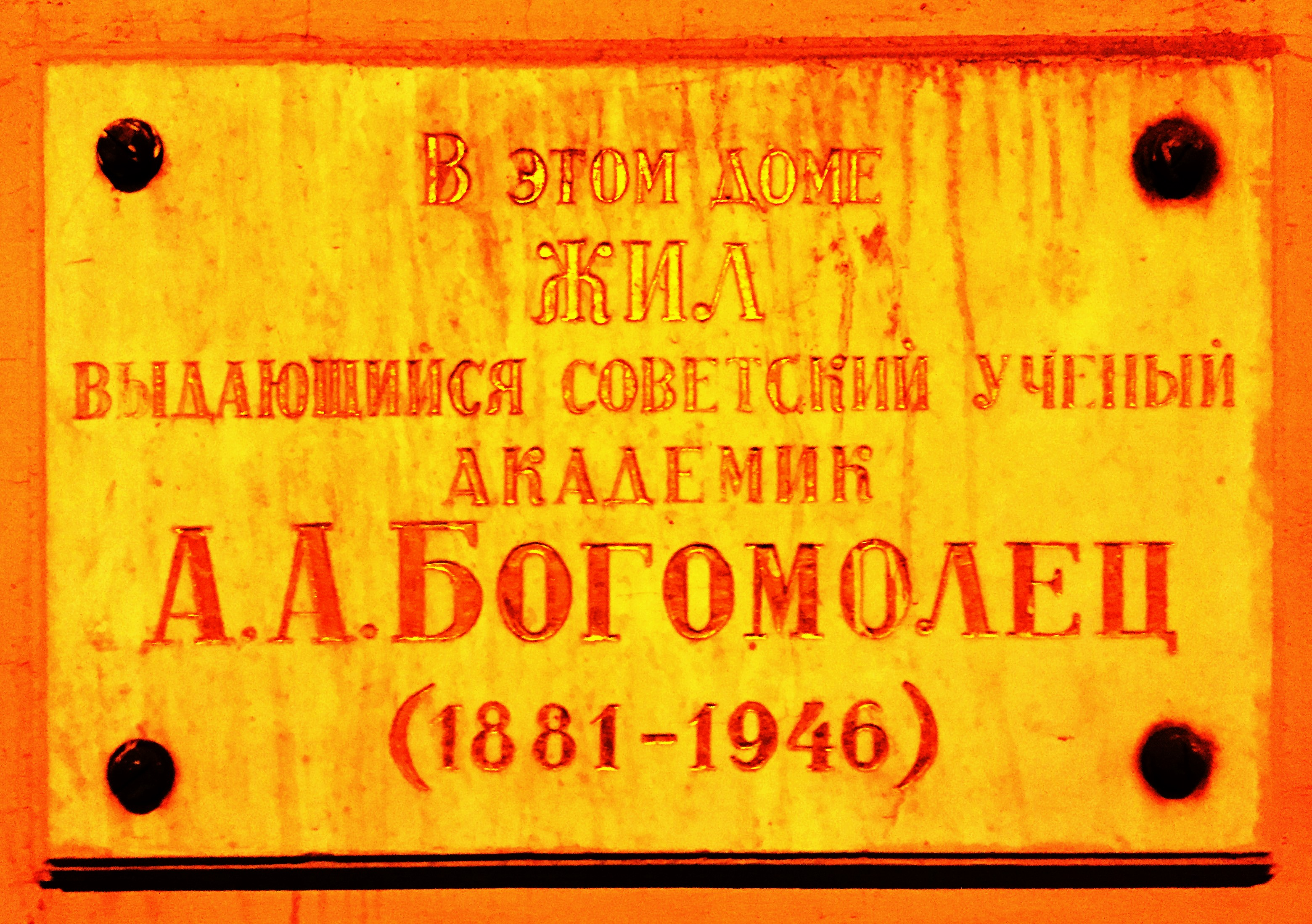 Commemorative plaque on a house in Moscow (Sivtsev Vrazhek 4) where Alexander Bogomolets lived